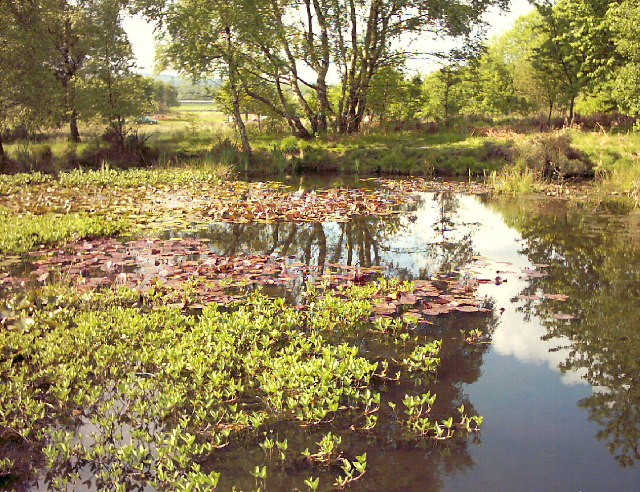 The Pool, Highgate Common. Small pool with water lilies on Highgate Common